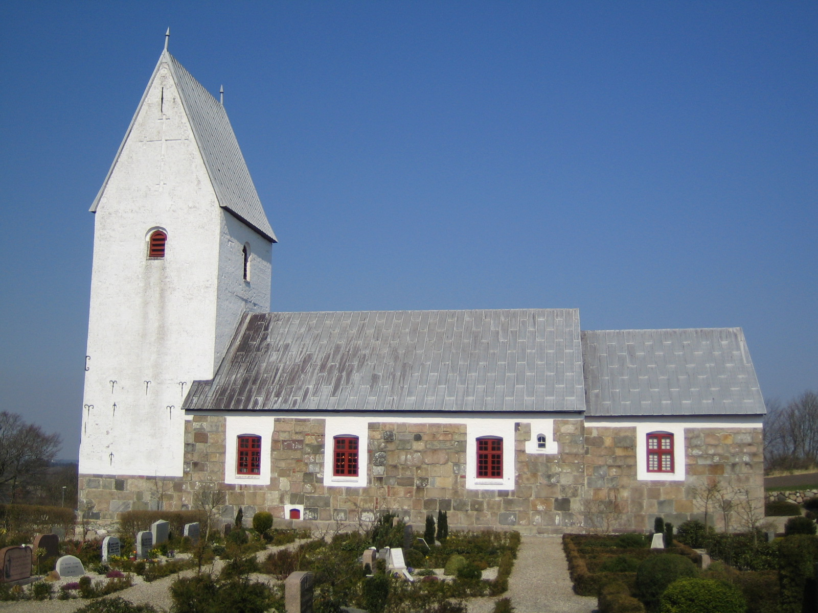 Photograph of Møborg Kirke in Denmark